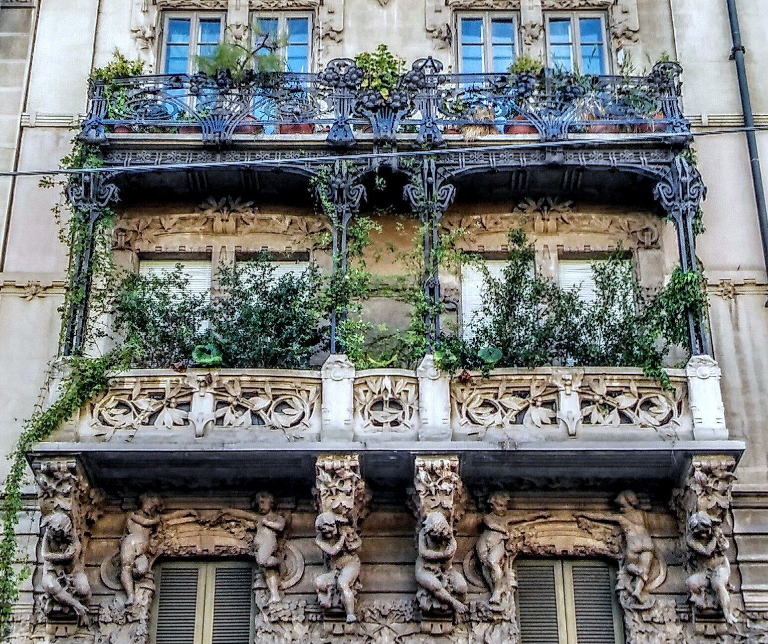 Particular of Casa Guazzoni, Milan